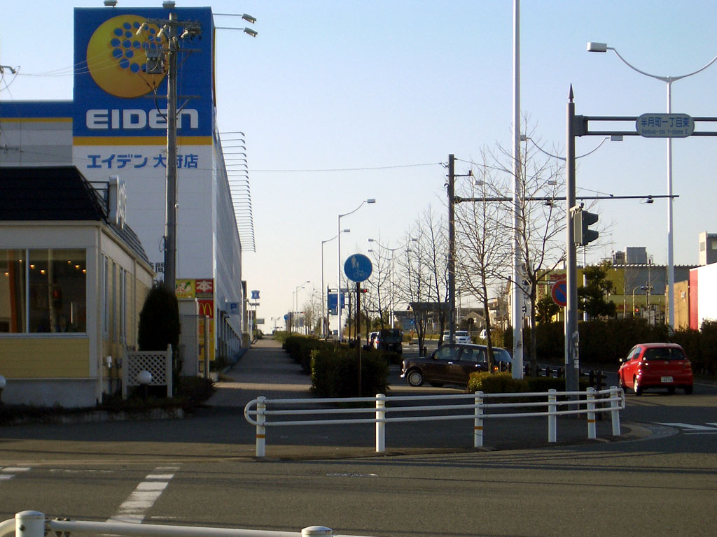 Aichi prefectural road 511, Taketoyo-Obu Cycling Road (Handuki T, Obu, Aichi)